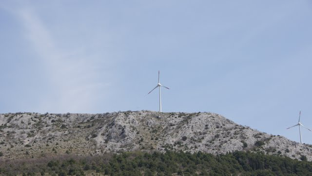 Two wind turbines of wind farm Trtar-Krtolin, Croatia.